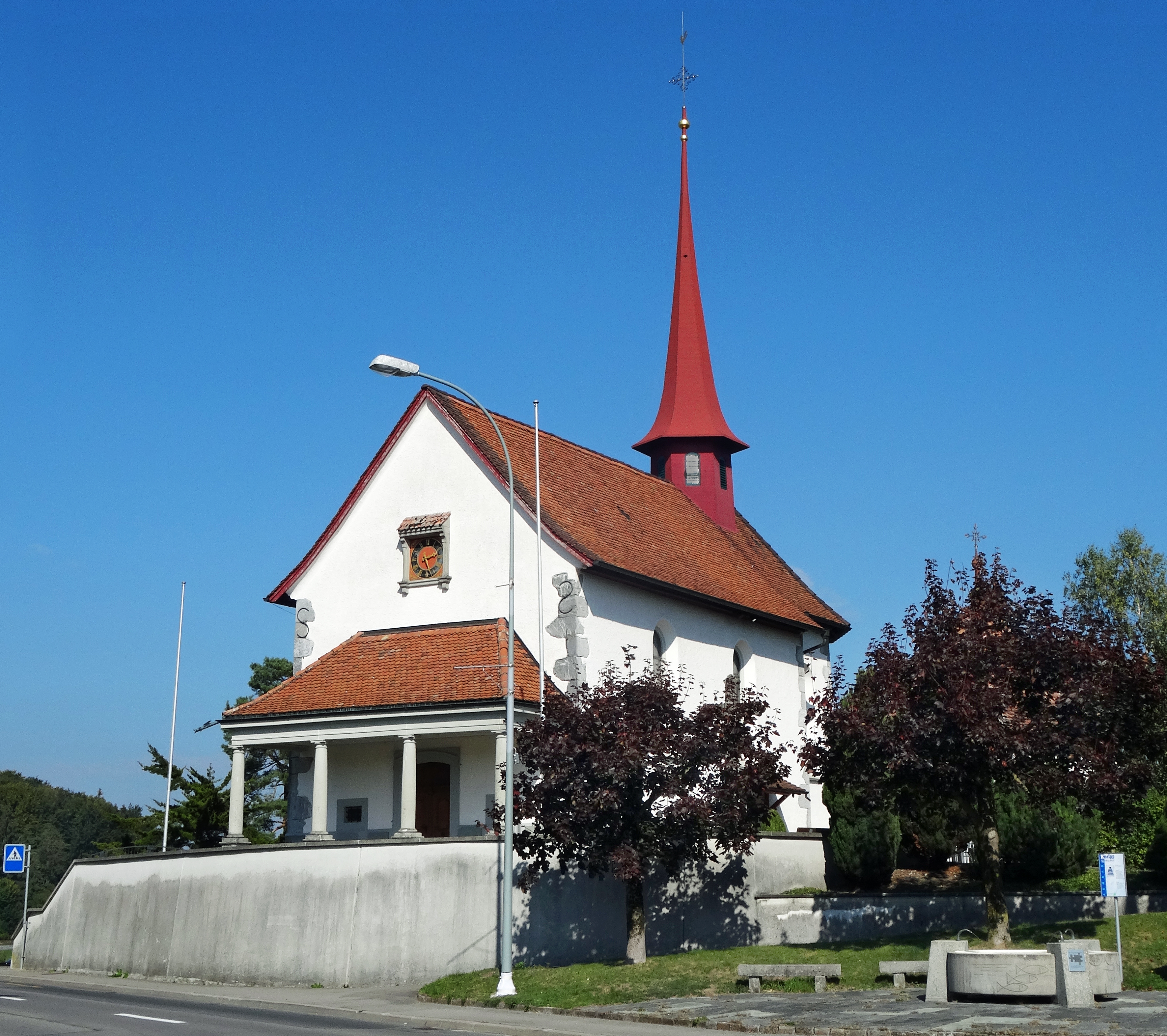 Saints Peter and Paul church in Schwarzenbach LU, Switzerland.